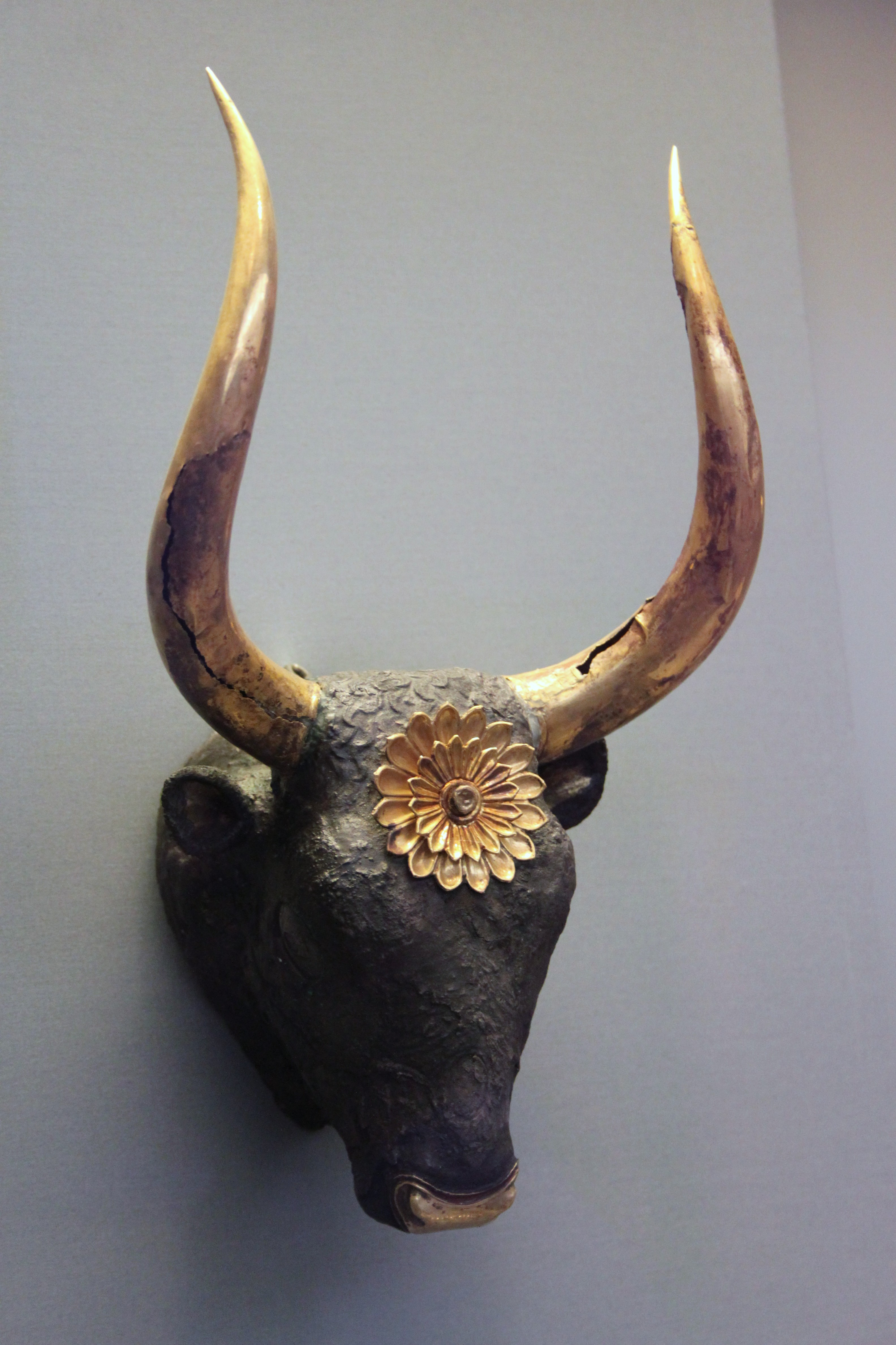 Mycaenean bull rhyton at the Athens National Archaeological Museum